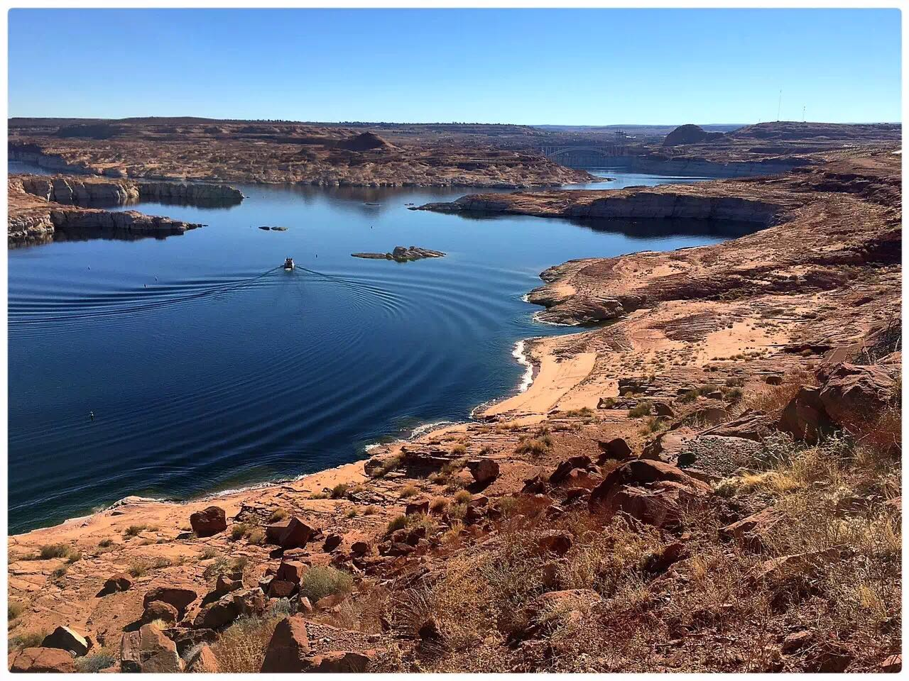 Shot taken on the route from Antelope Canyon through Bryce Canyon.